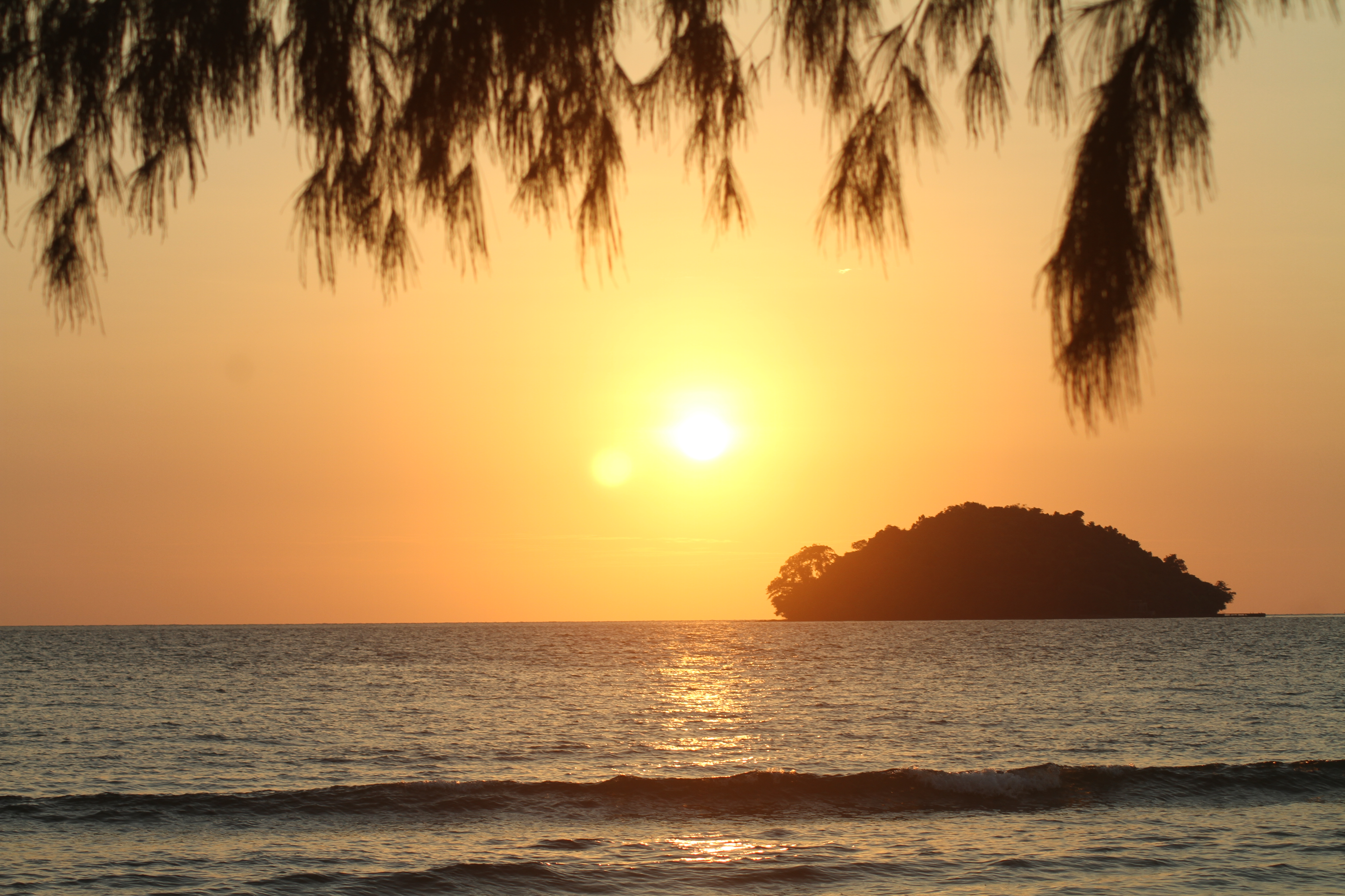 Along with its temples Cambodia has been promoting its coastal resorts.Island off Otres Beach Sihanoukville, Cambodia.